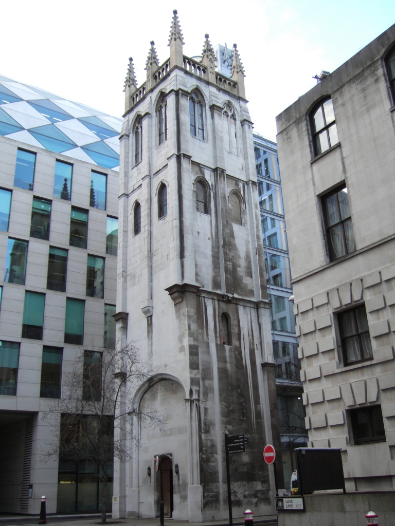 Tower of former church of St Alban at Bassishaw.